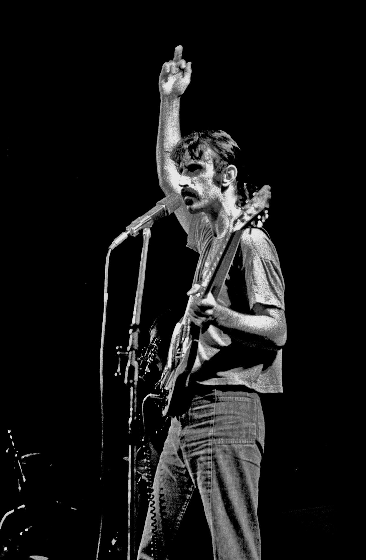 Frank Zappa 1609740009 Frank Zappa & The Mothers Of Invention, September 1974, Musikhalle, Hamburg-- Zappa is "giving the finger" while in concert.